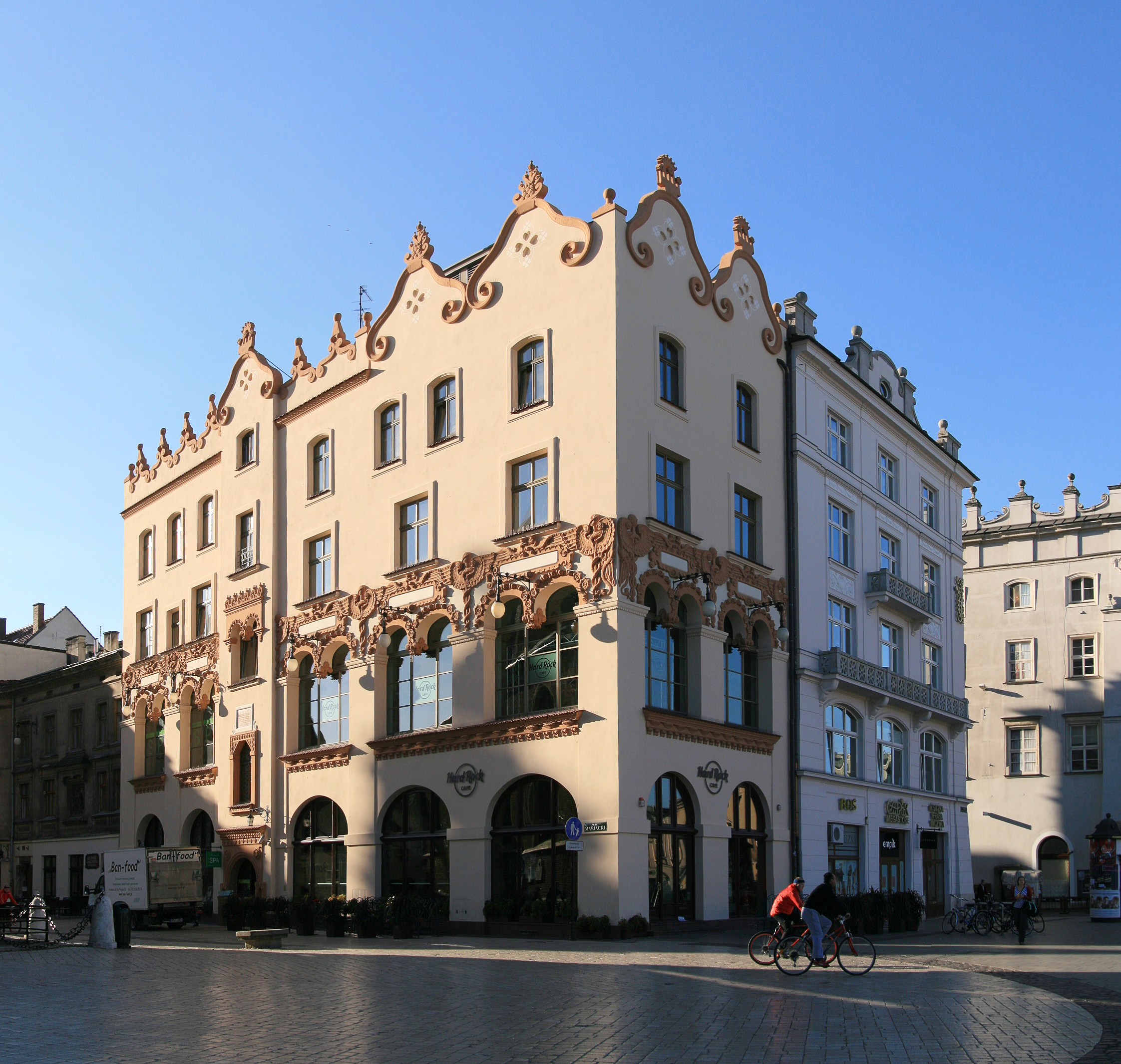 Czyncielow House, Old Market square 4, Krakow